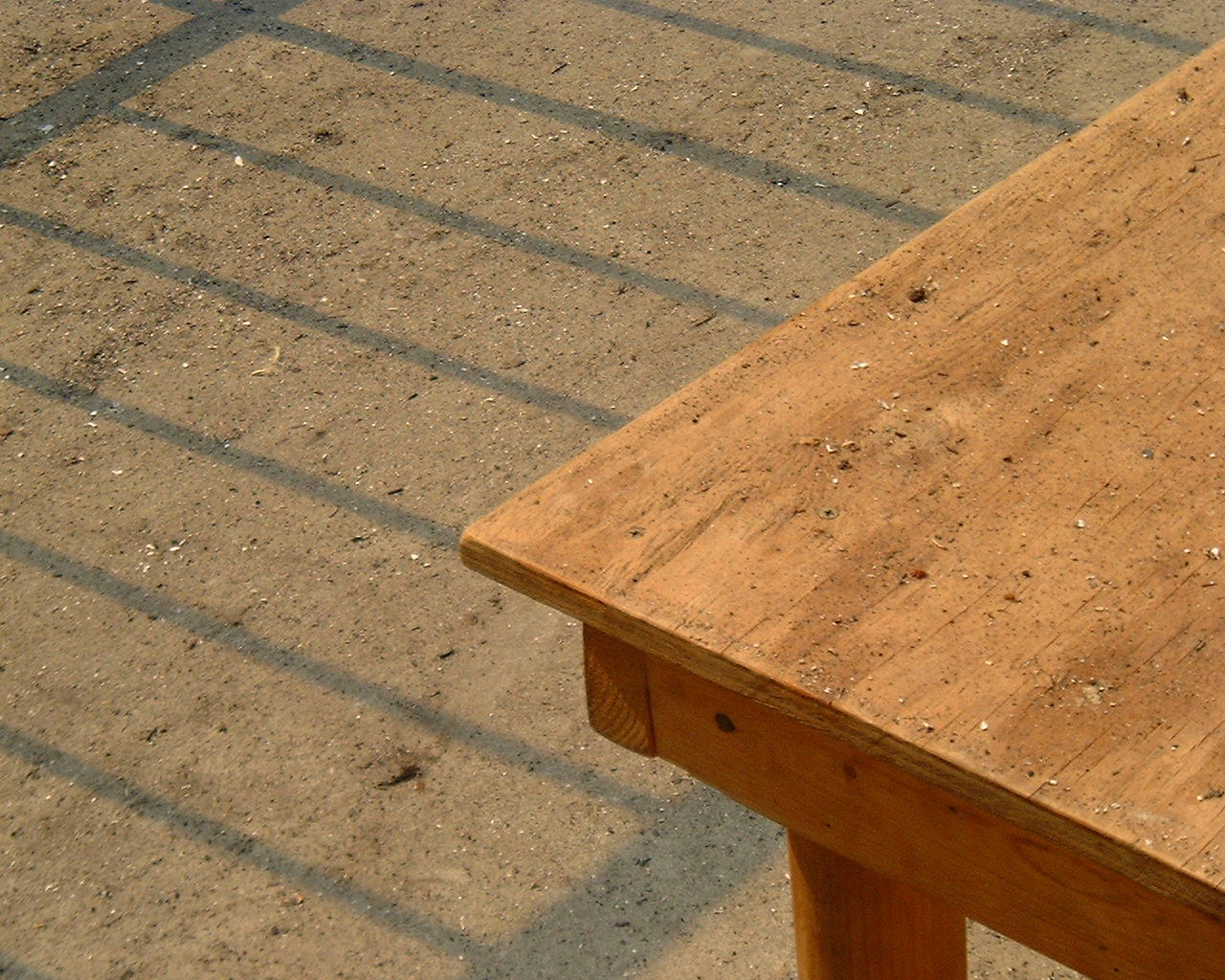 Ash from a nearby wildfire collected in the course of one day in Claremont, CA, 2003.